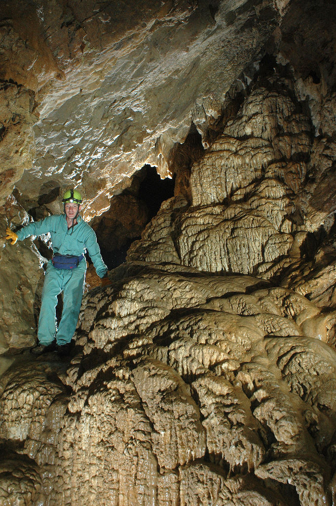 The Lower Cave at Horne Lakes Provincial Park, open to public visitation.